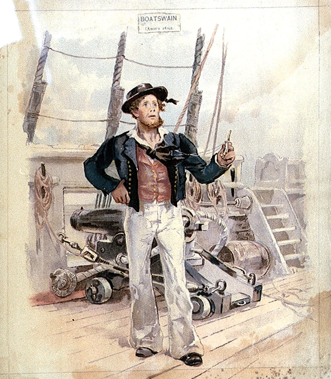 Boatswain (uniform); lithograph, coloured, ca.1820. 200 mm x 175 mm